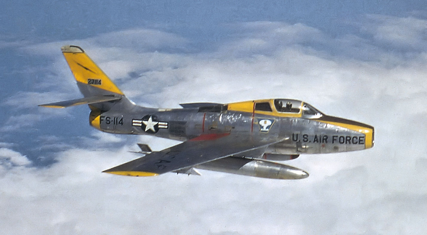 92d Tactical Fighter Squadron - Republic F-84F-45-RE Thunderstreak - 52-7114